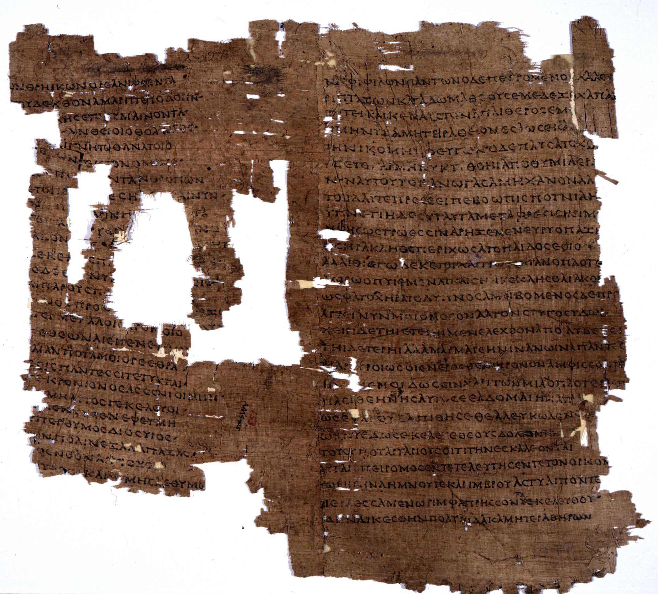 Papyrus Oxyrhynchus 551 - Princeton University Library, AM 4405 - Homer, Iliad XIV:227–253,256–263